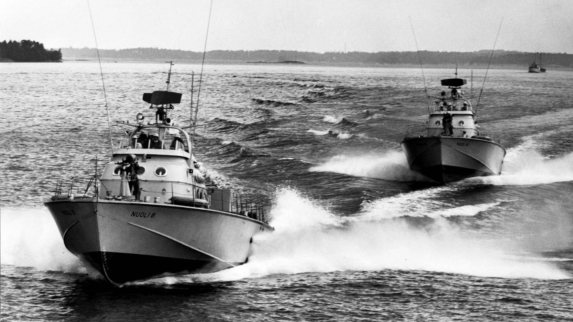 Photograph of two class “Nuoli” motorized gun boats (apparently Nos. 8 and 6) of the Finnish Navy, acting at a manœuvre.